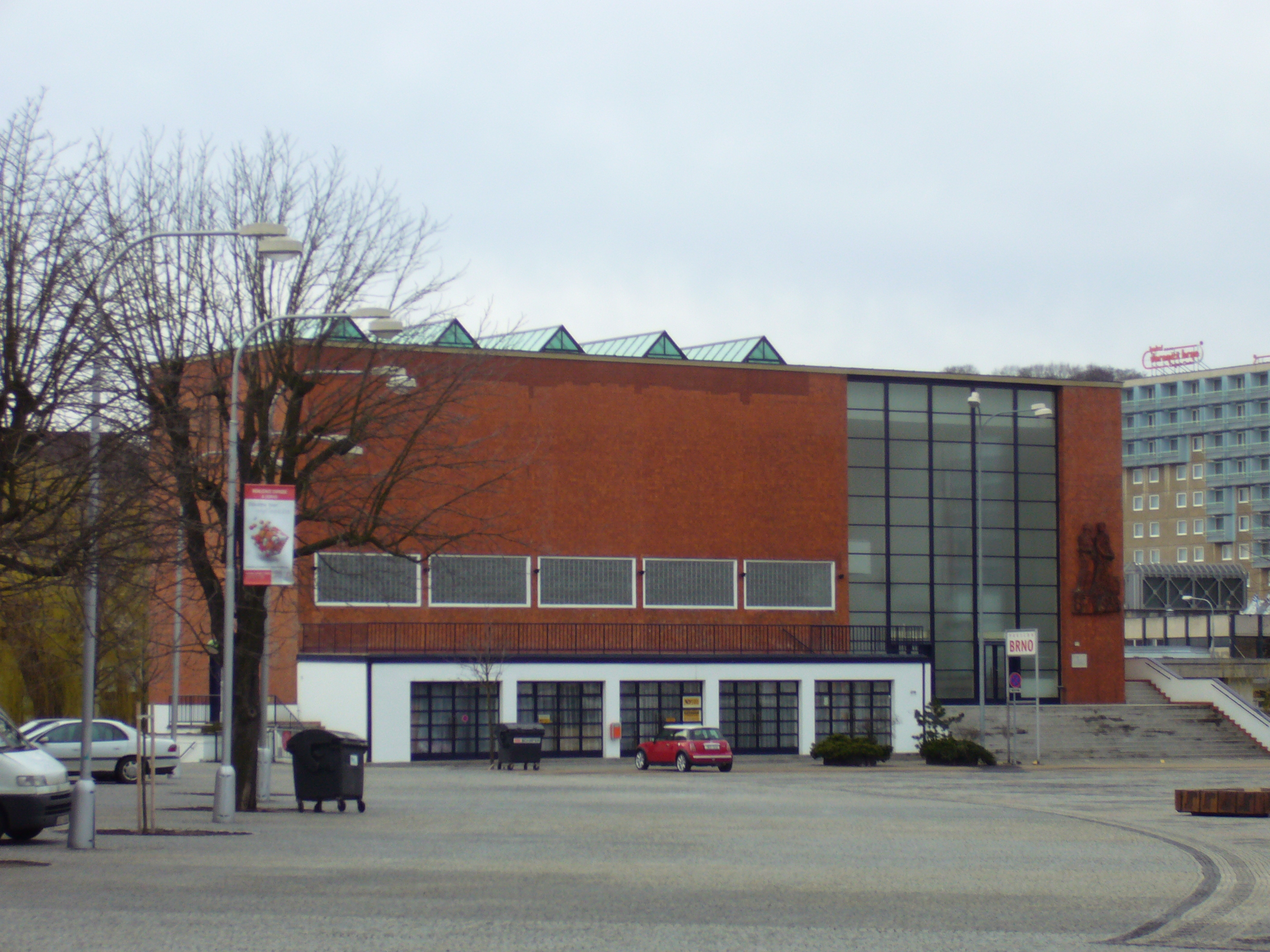 Pavilion "Brno" at Brno exhibition ground.